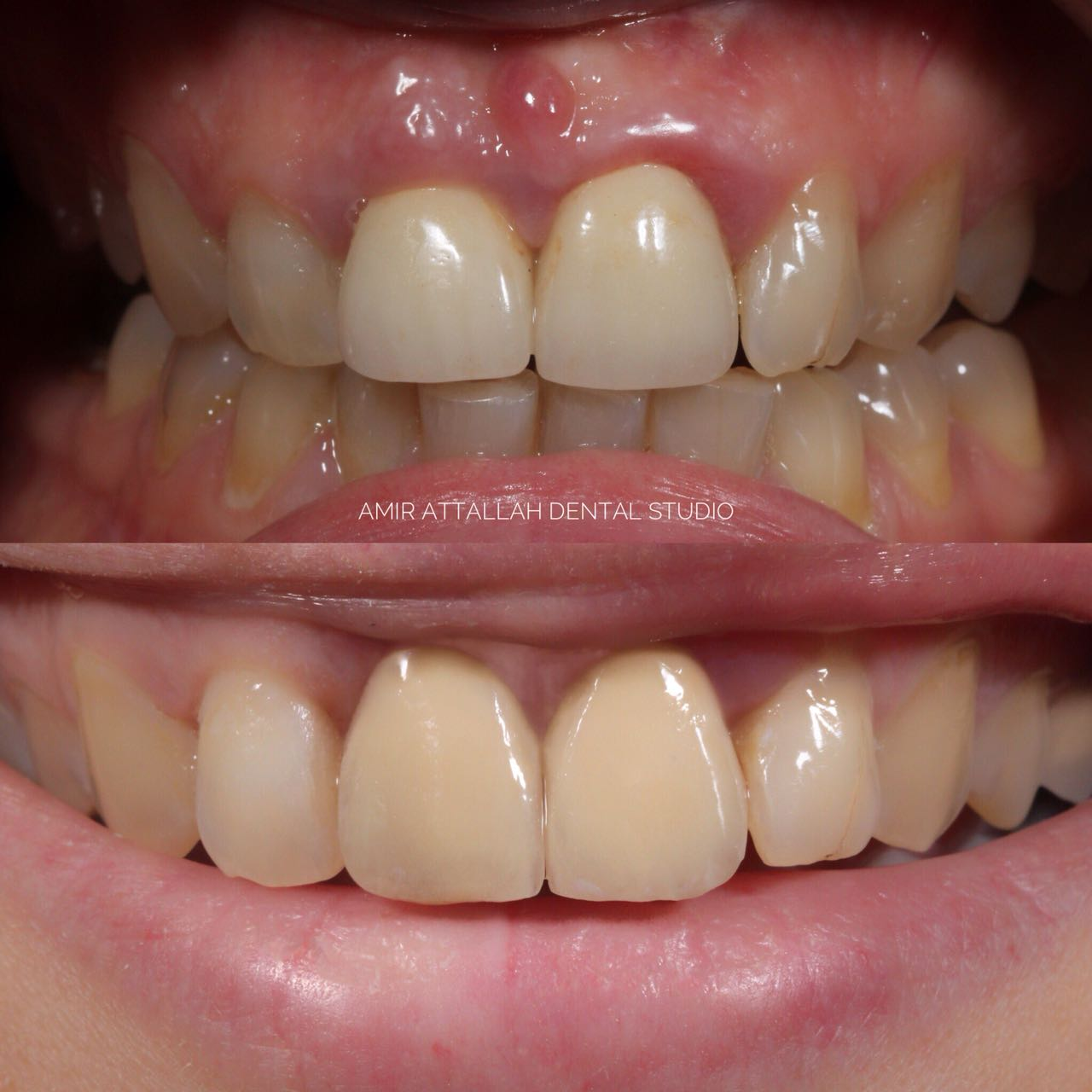 Replacement of unaesthetic crowns on 1.1 and 2.1 by crown lengthening and provision of new restorations.